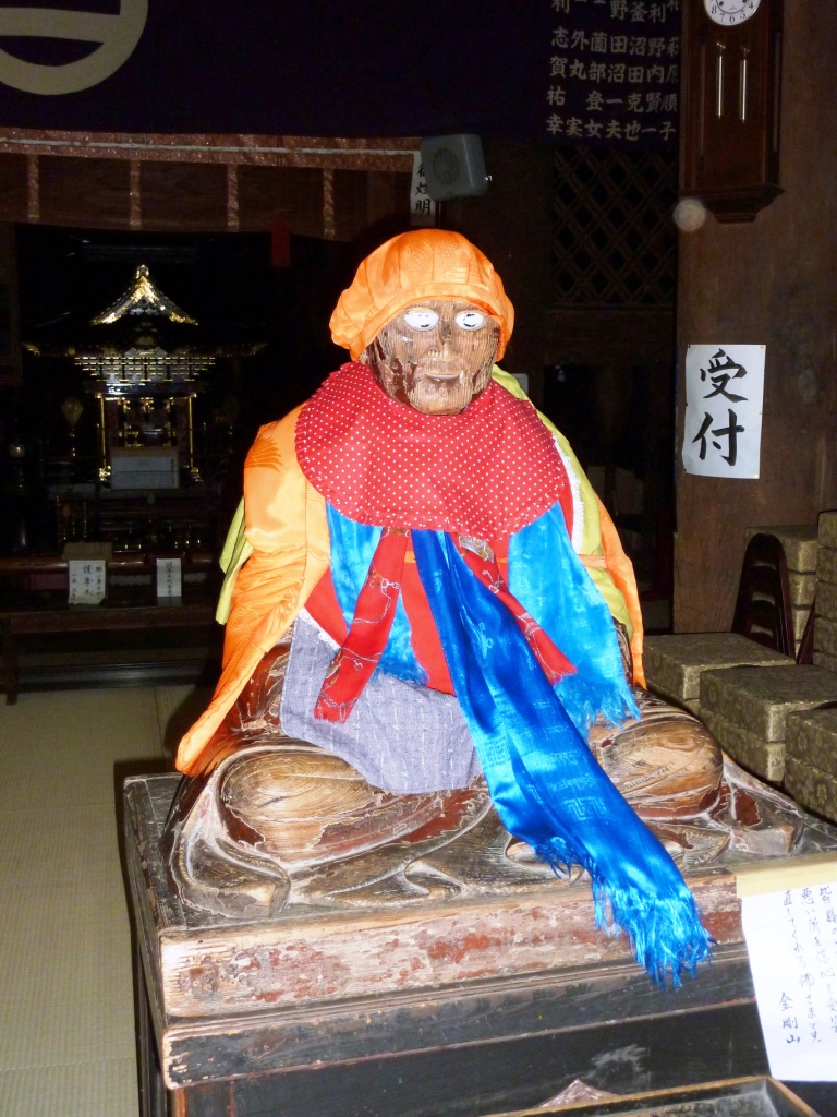 I took this photo at Bannaji Temple, Japan in 2010